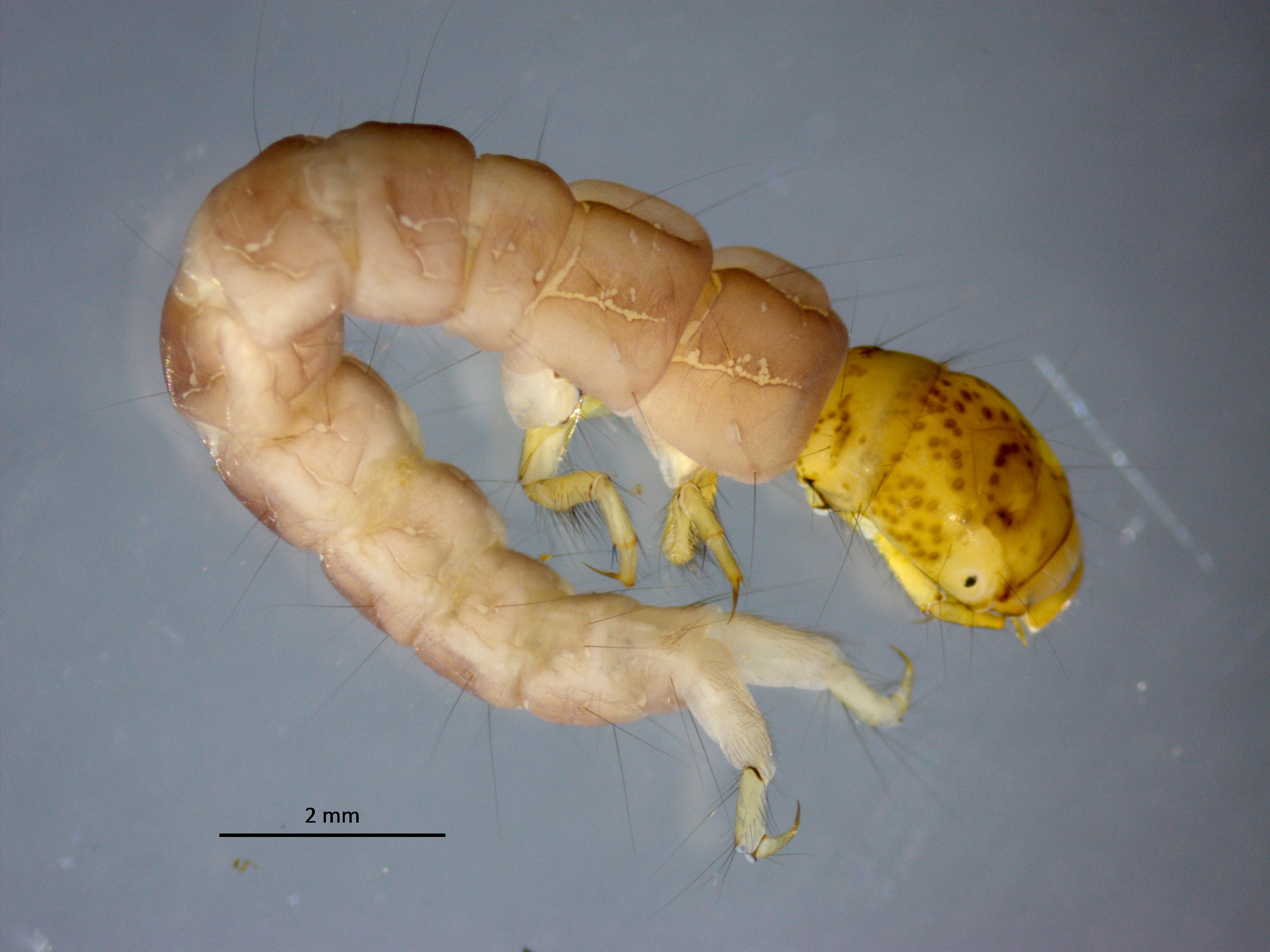 Plectrocnemia conspersa larva from Suvoljubatska river (SE Serbia). Српски (ћирилица): Ларва Plectrocnemia conspersa из Сувољубатске реке (општина Босилеград, ЈИ Србија).